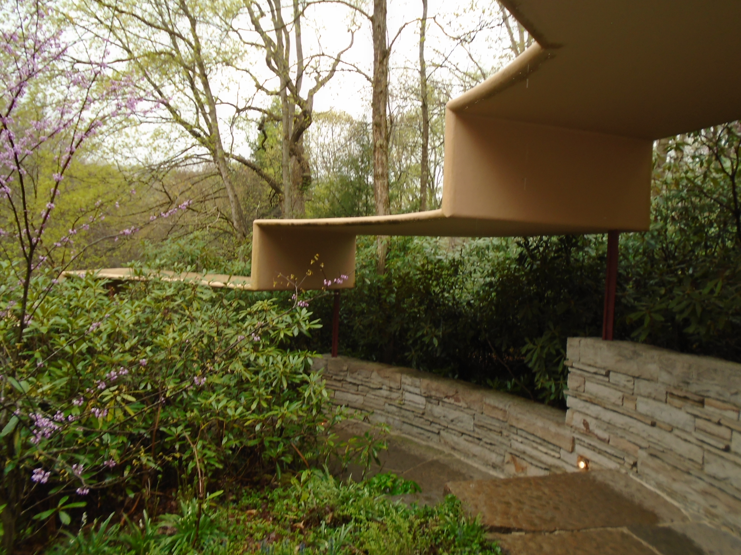 Fallingwater walkway cover.